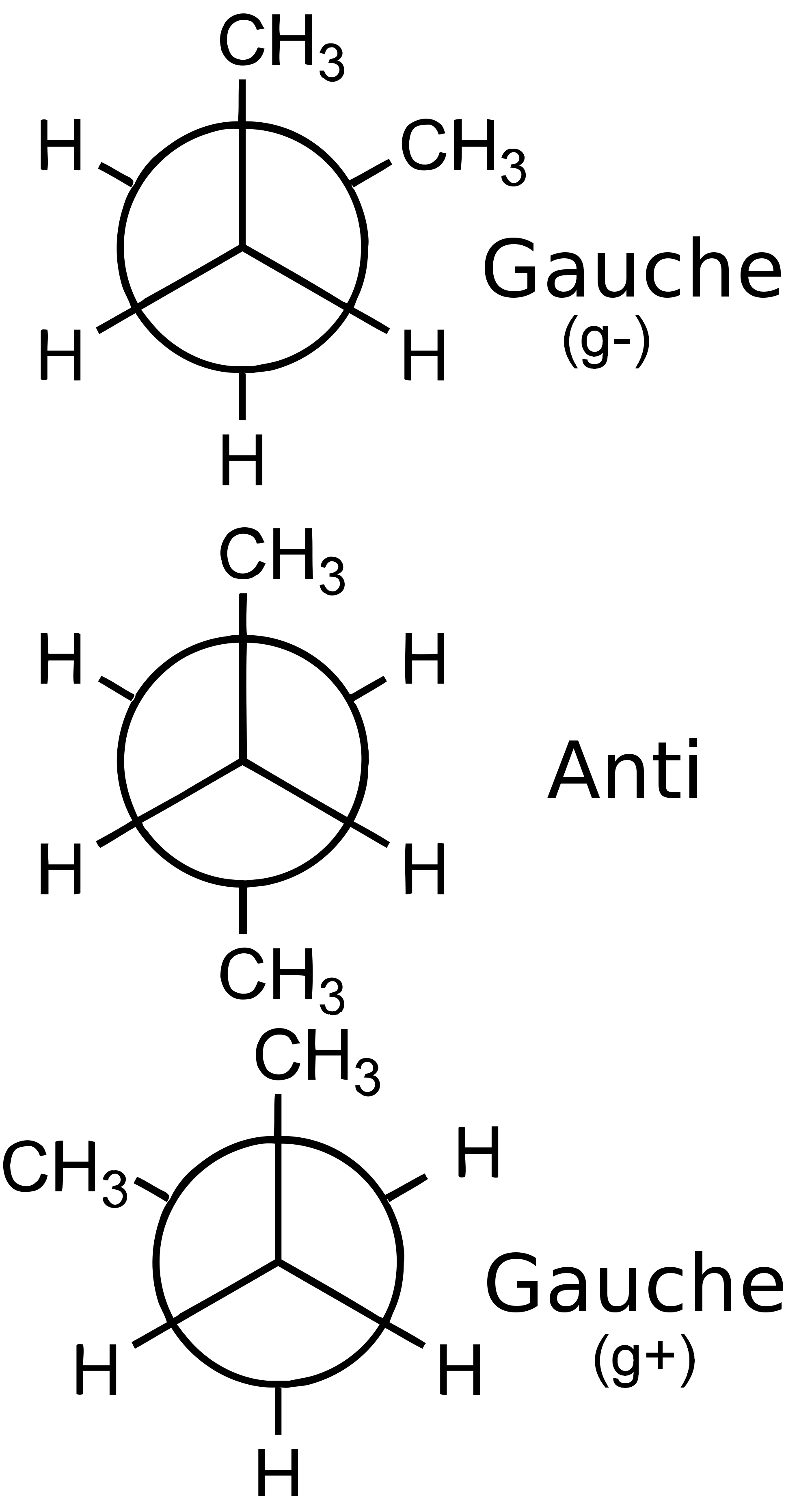 Newman projections of the butane conformers.Intended as replacement of the image 2000px-Conformers.svg.png on the page "Conformqational Isomerism" containing severe inacuracies.